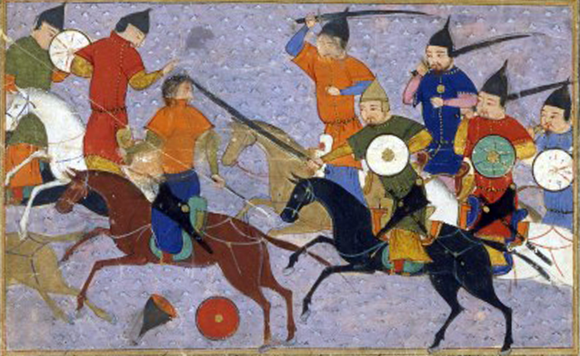 Battle between Mongols & Chinese (1211). Jami' al-tawarikh, Rashid al-Din.